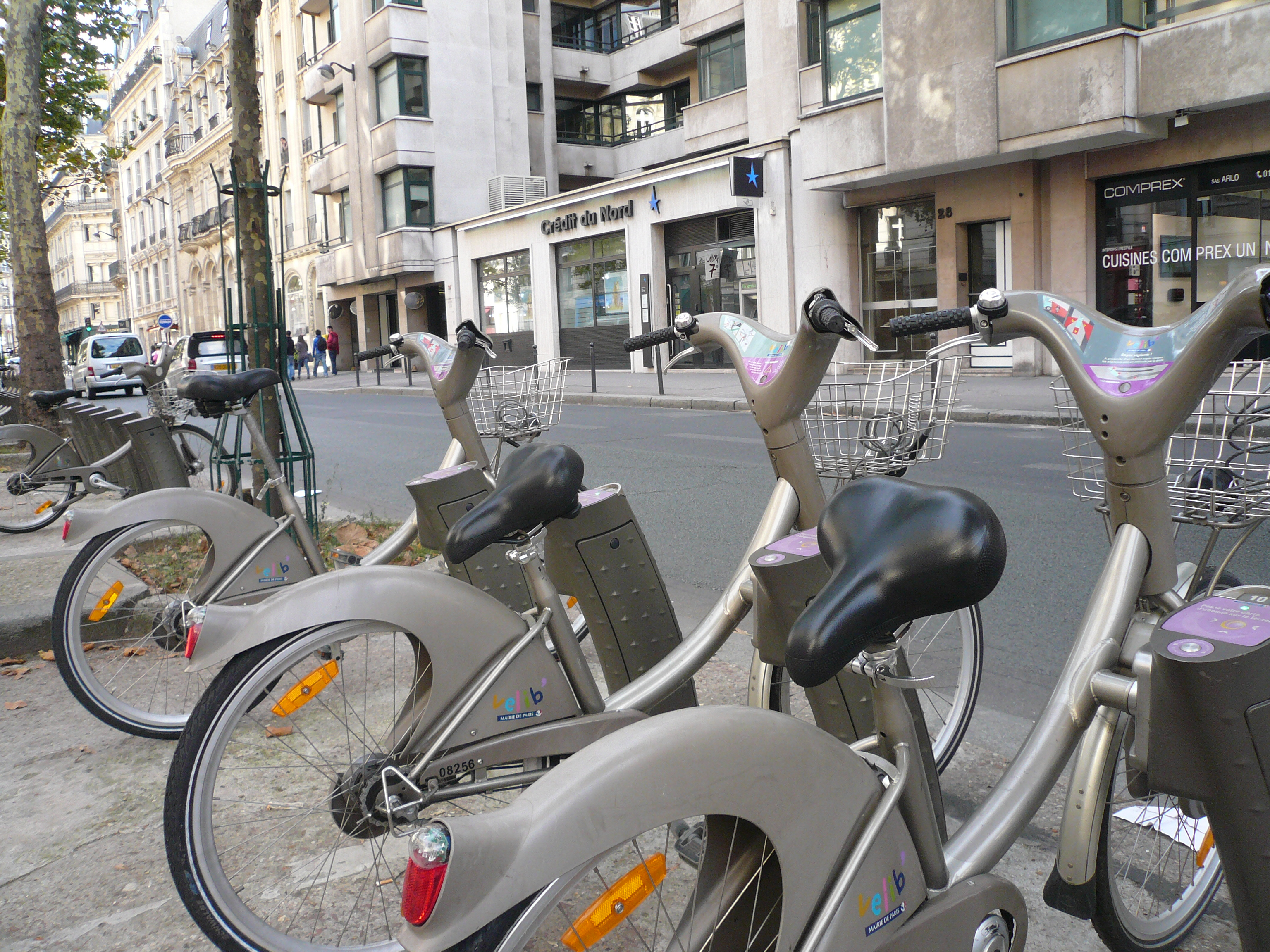 Broken Vélib' in Paris, Vélib station no 07004 Raspail-Varenne, 28 boulevard Raspail, VIIe arrondissement, Paris, France.